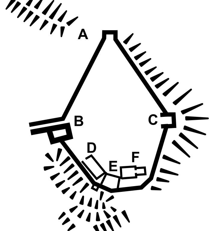 Deddington Castle inner bailey, c. 12th- 13th centuries. After Ivens, 1984.